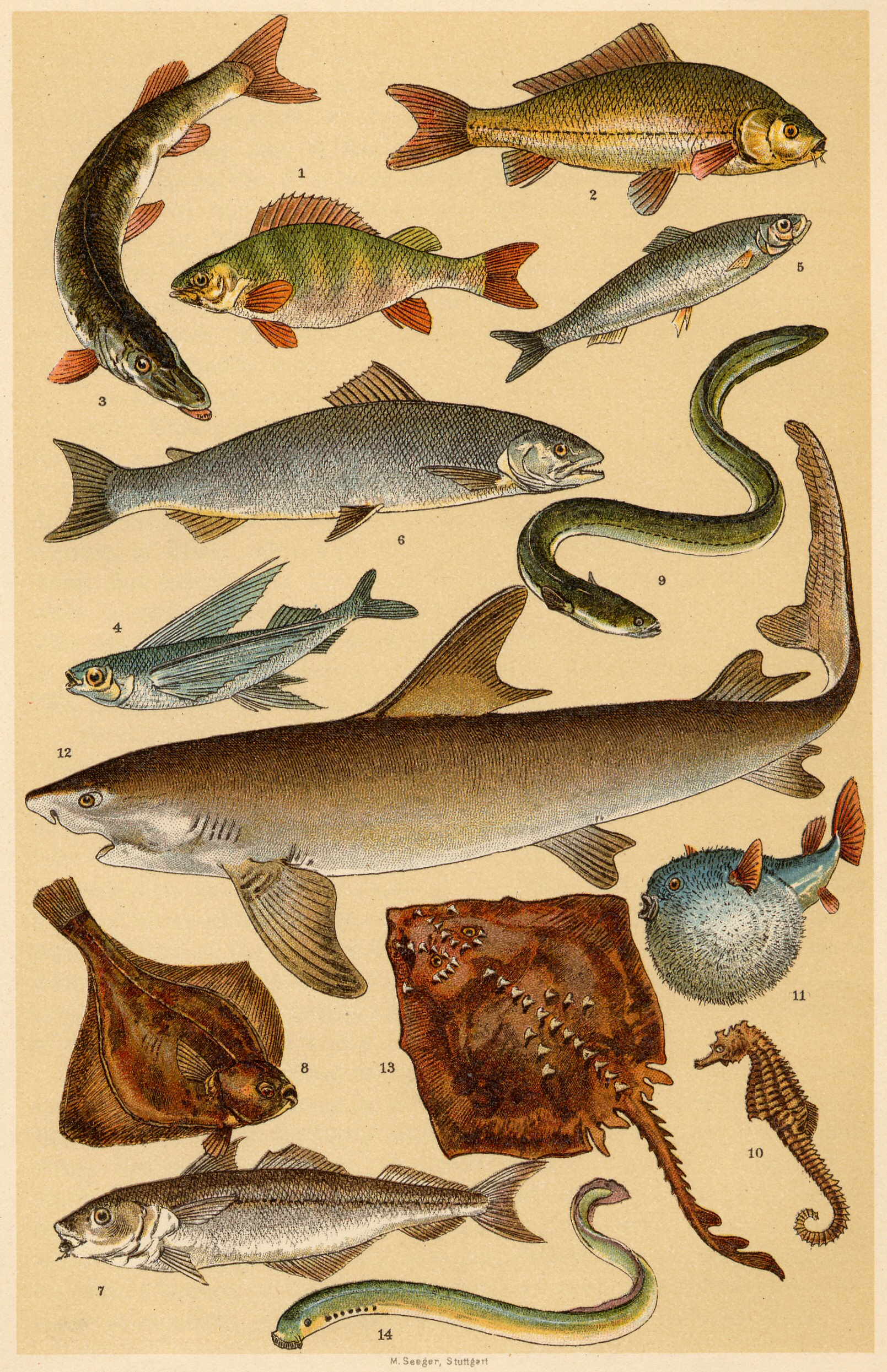 Colour plate of Fishes from Popular Natural History by Henry Scherren, 1906. Engraved by M. Seeger, Stuttgart.